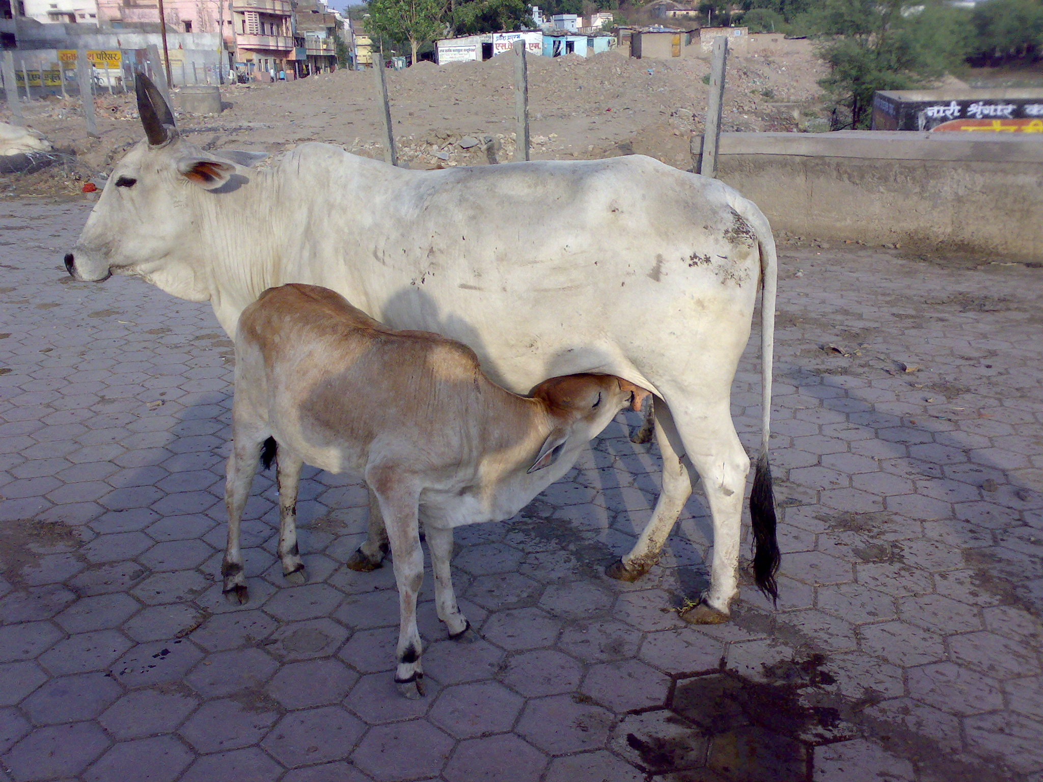 natural feeding